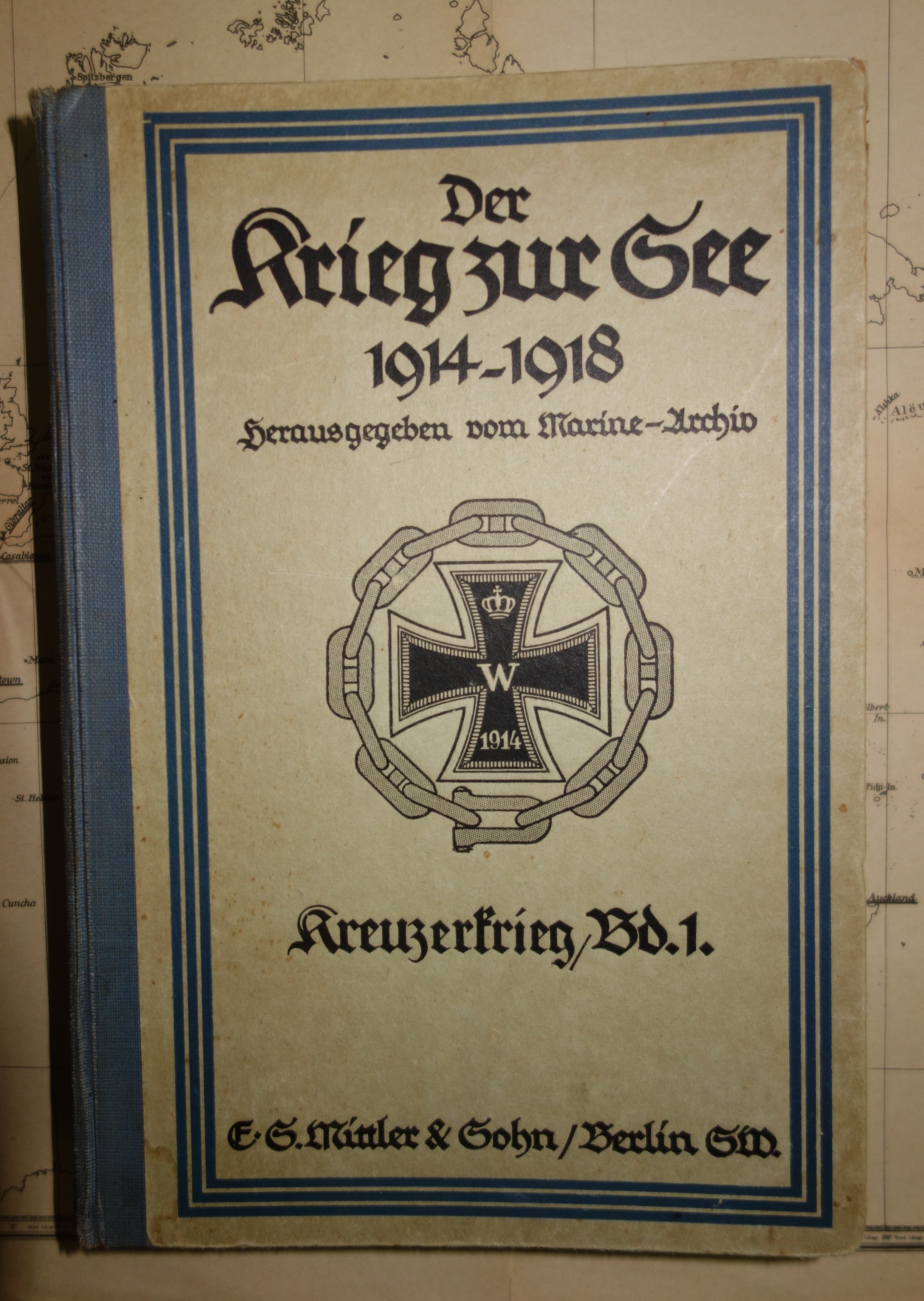 Book about the War at Sea in 1914–1918 by Erich Raeder